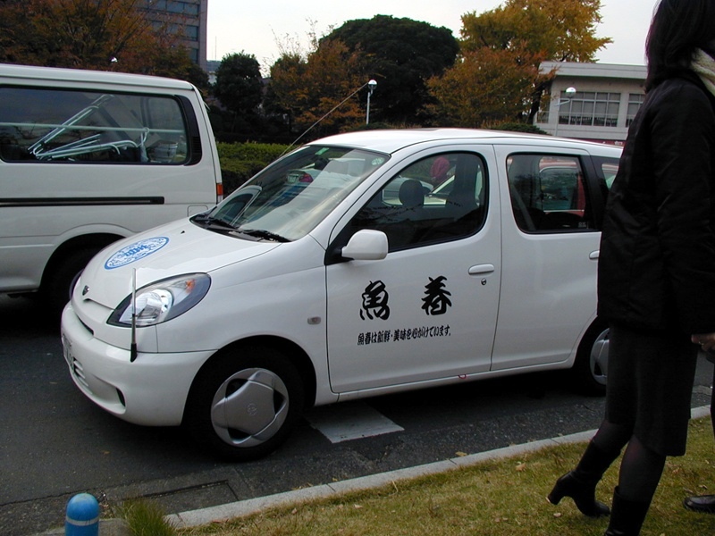 Toyota Fun Cargo